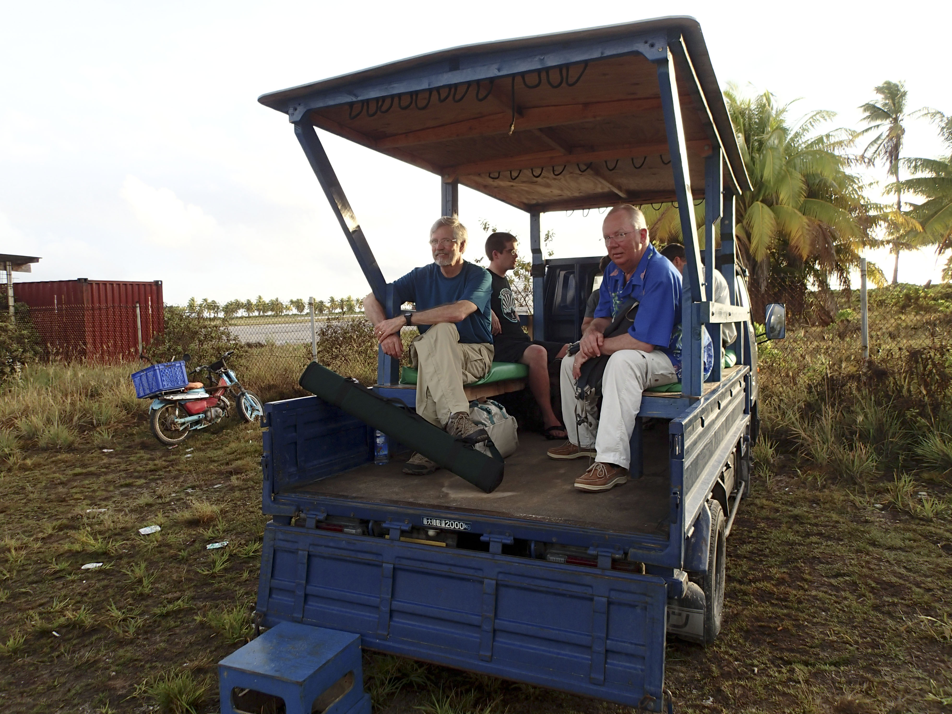 Cassidy Airport connection transport